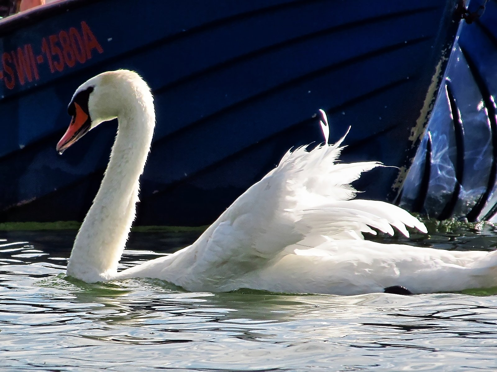 Swan and boat